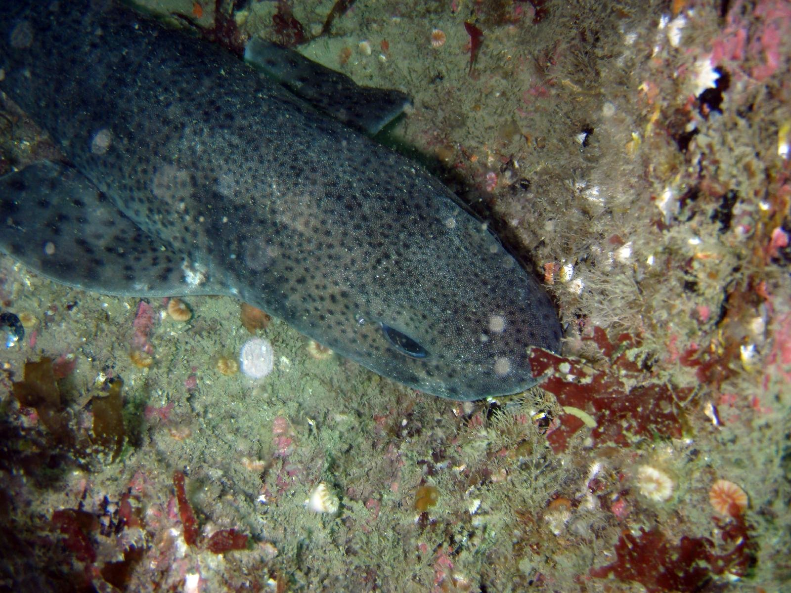 Small-spotted catshark (Scyliorhinus canicula) at Kedges Reef, Ireland.